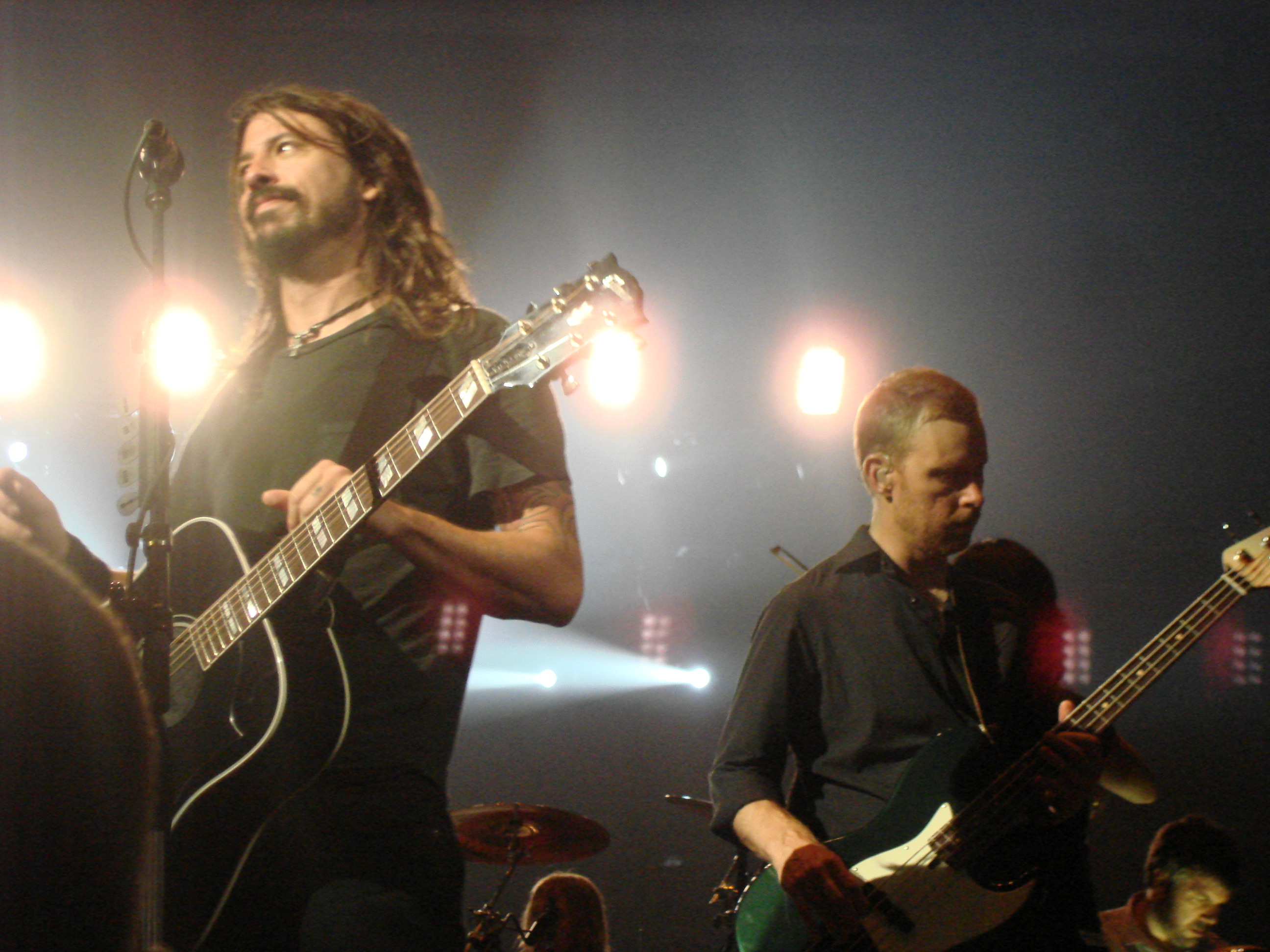 Dave Grohl and Nate Mendel of the Foo Fighters